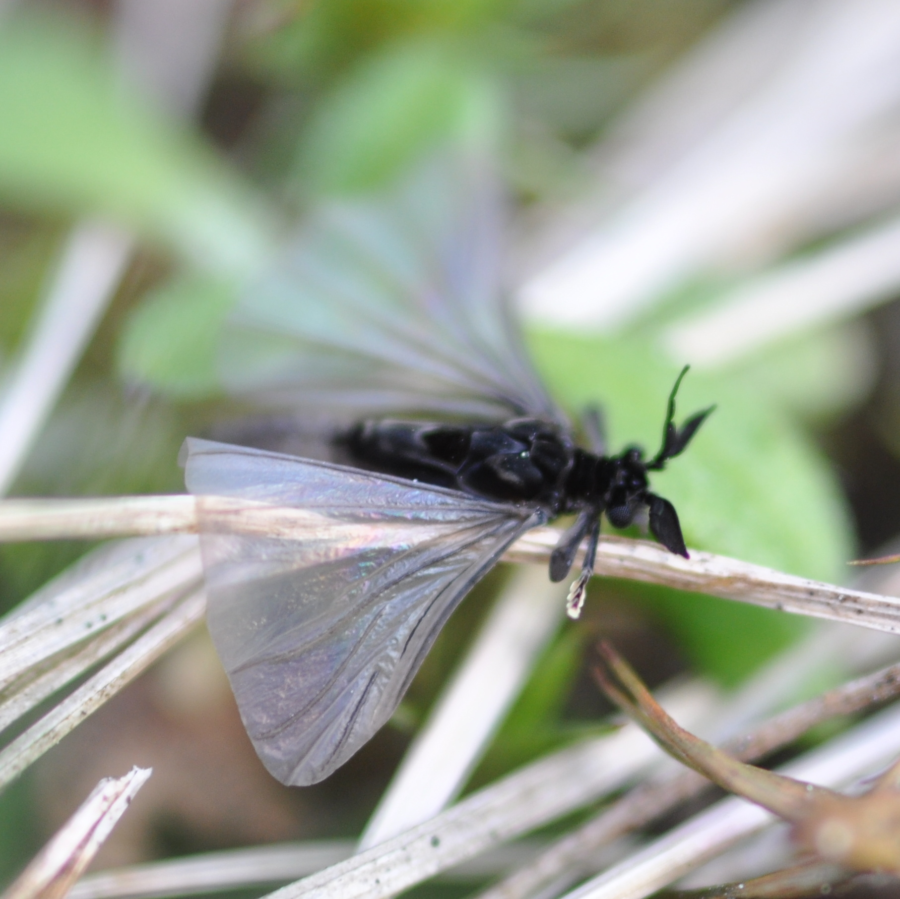 Twisted-winged parasite Stylops melittae male in Bahrenfeld, Hamburg.